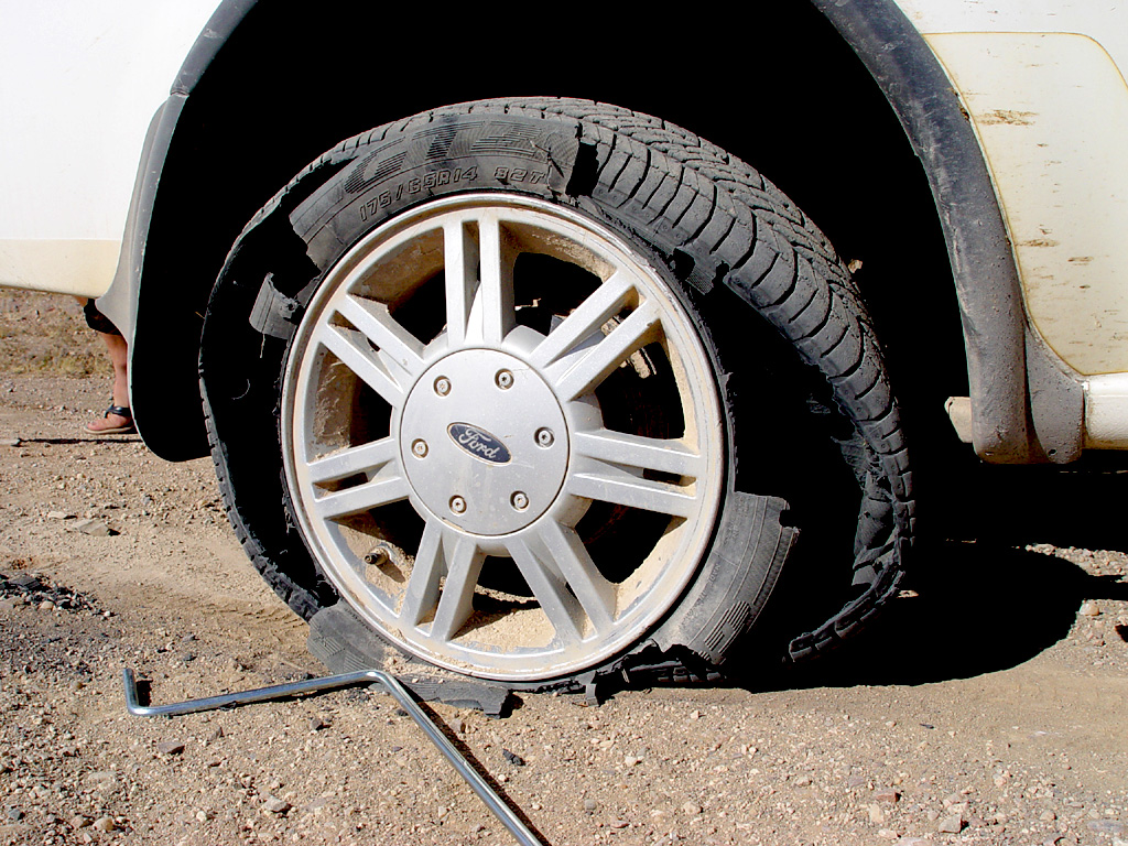 A dismantled tire on car in Brukkaros Mountain Karas, Namibia